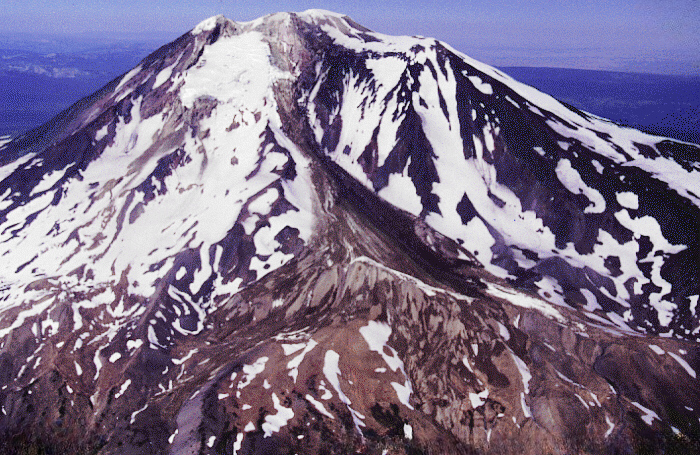 USGS/Cascades Volcano Observatory photo of Mount Adams